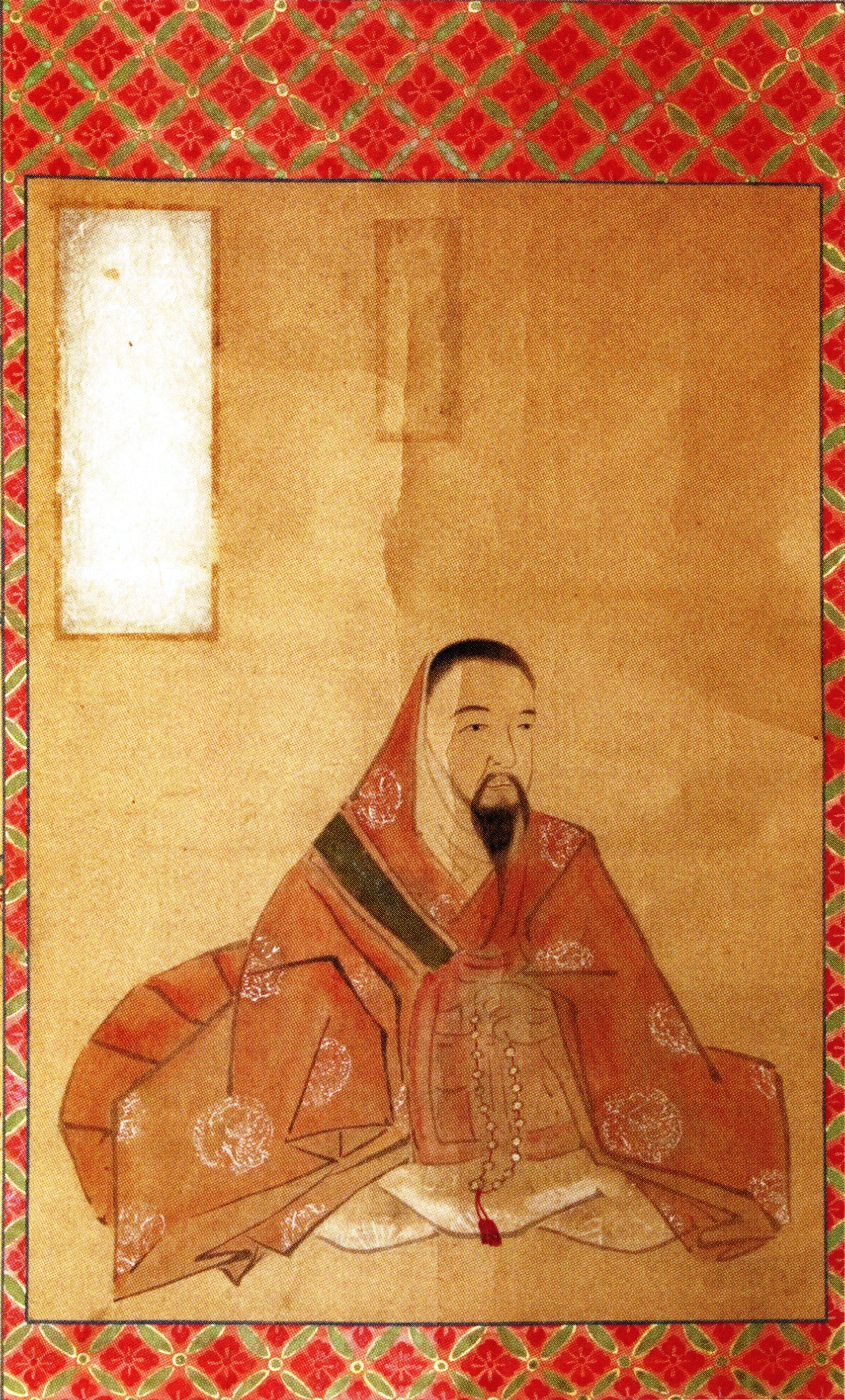 Portrait of the Emperor Go-Kameyama